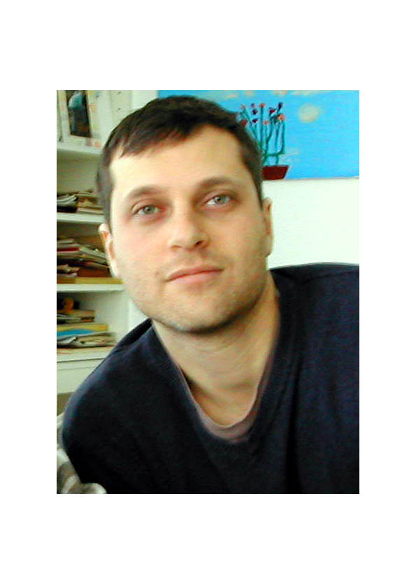 I own this photo. My friend took it of me several years ago.